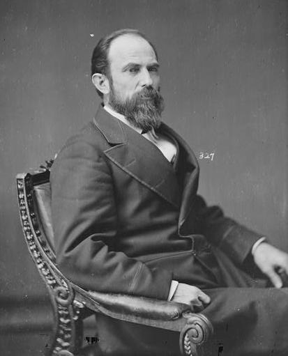 Hewitt, Hon. G.W. of Ala. Private in Co. B. 10th Ala. Regt. C.S.A. Capt. of Co. G. 28th Ala. Int. 1862 Severly wounded at Chuckamauga.